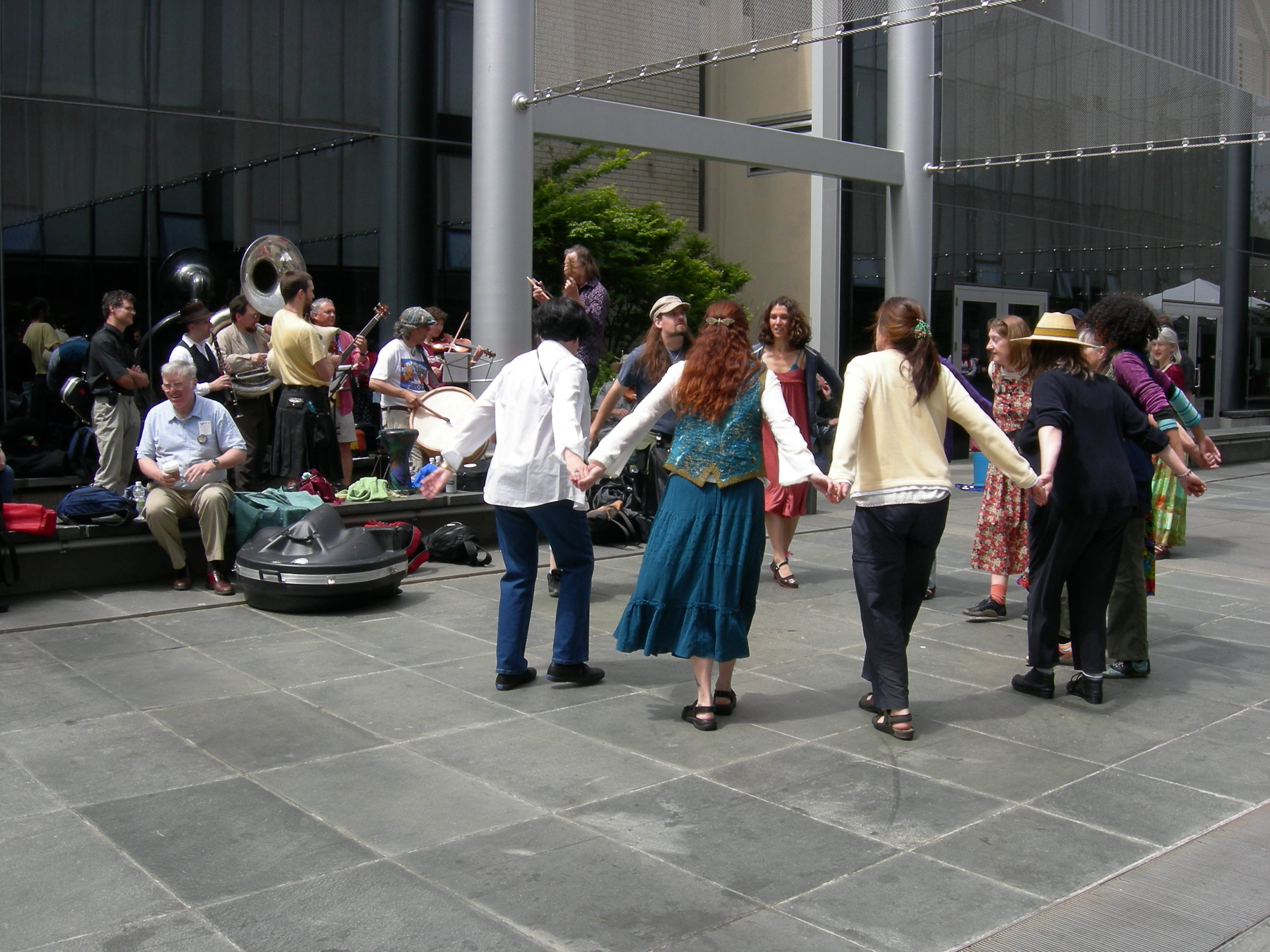 Impromptu circle dance on Kreielsheimer Promenade, Seattle Center, during Northwest Folklife Festival.